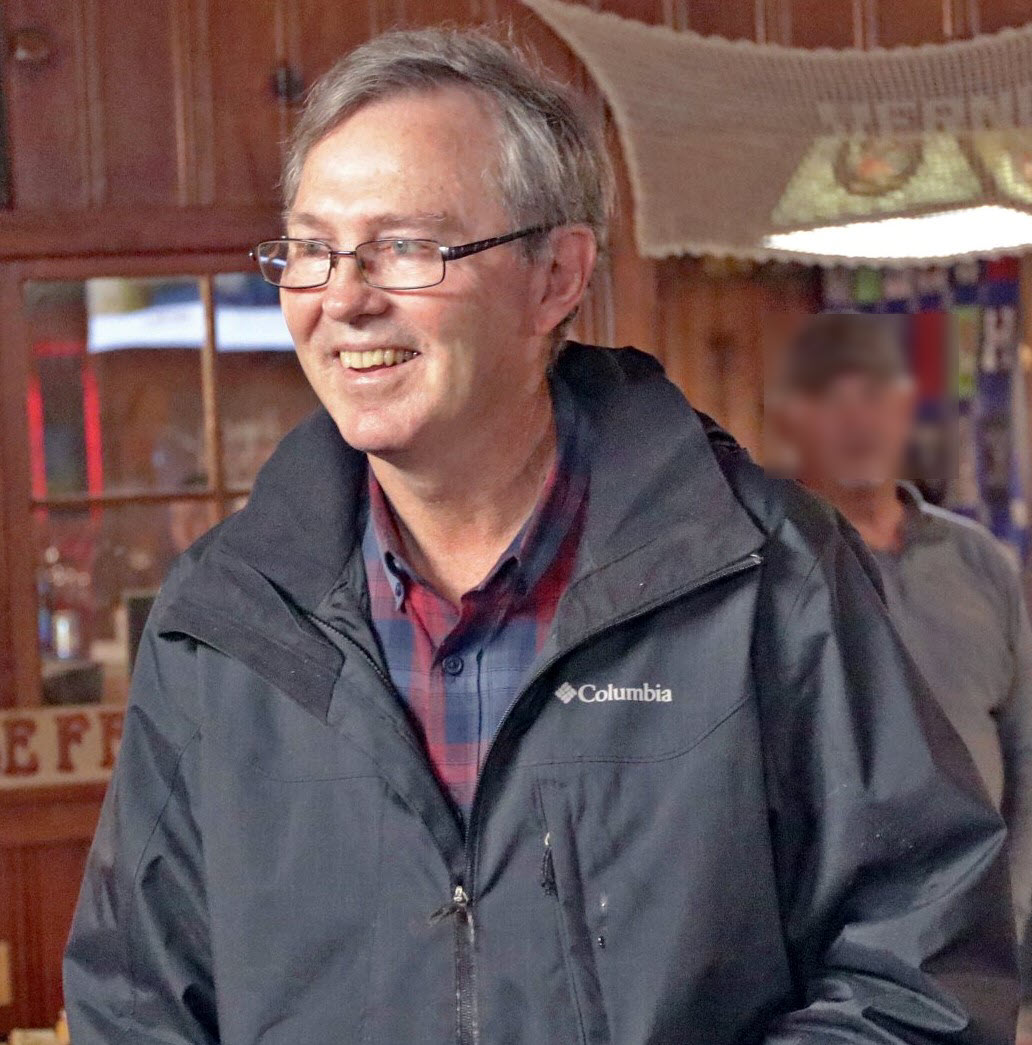 Leon Crosswhite has been honored by the city of Hennessey, Oklahoma and his friends.